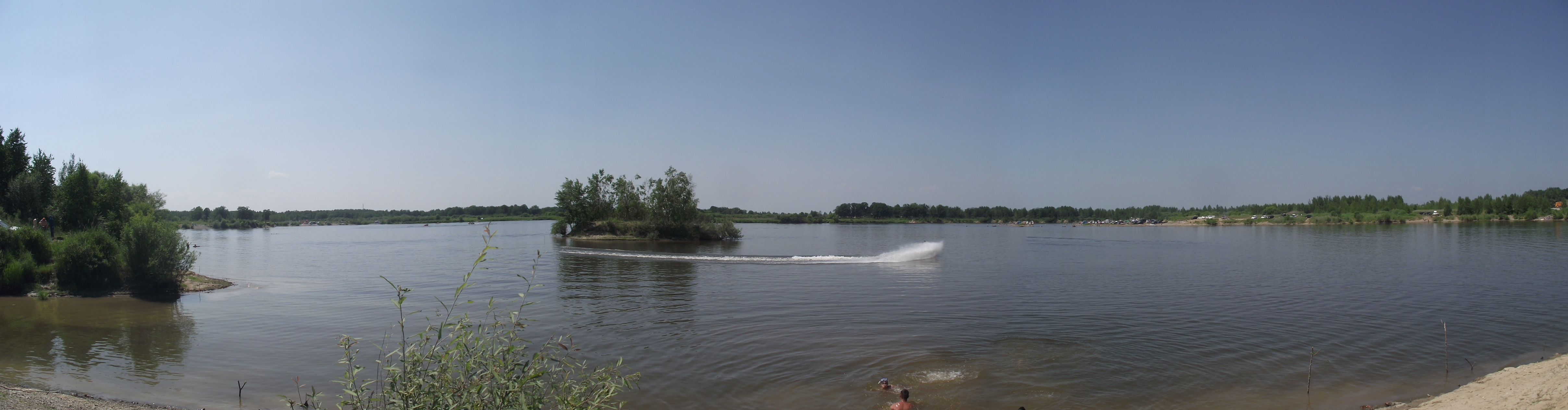 Панорама Благодатного озера. Хабаровский край